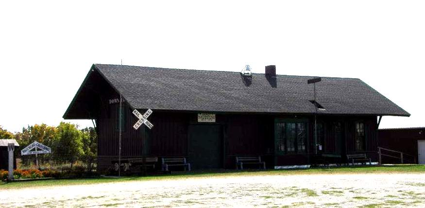 Railroad depot in Downing, Missouri. It is listed on the National Register of Historic Places.